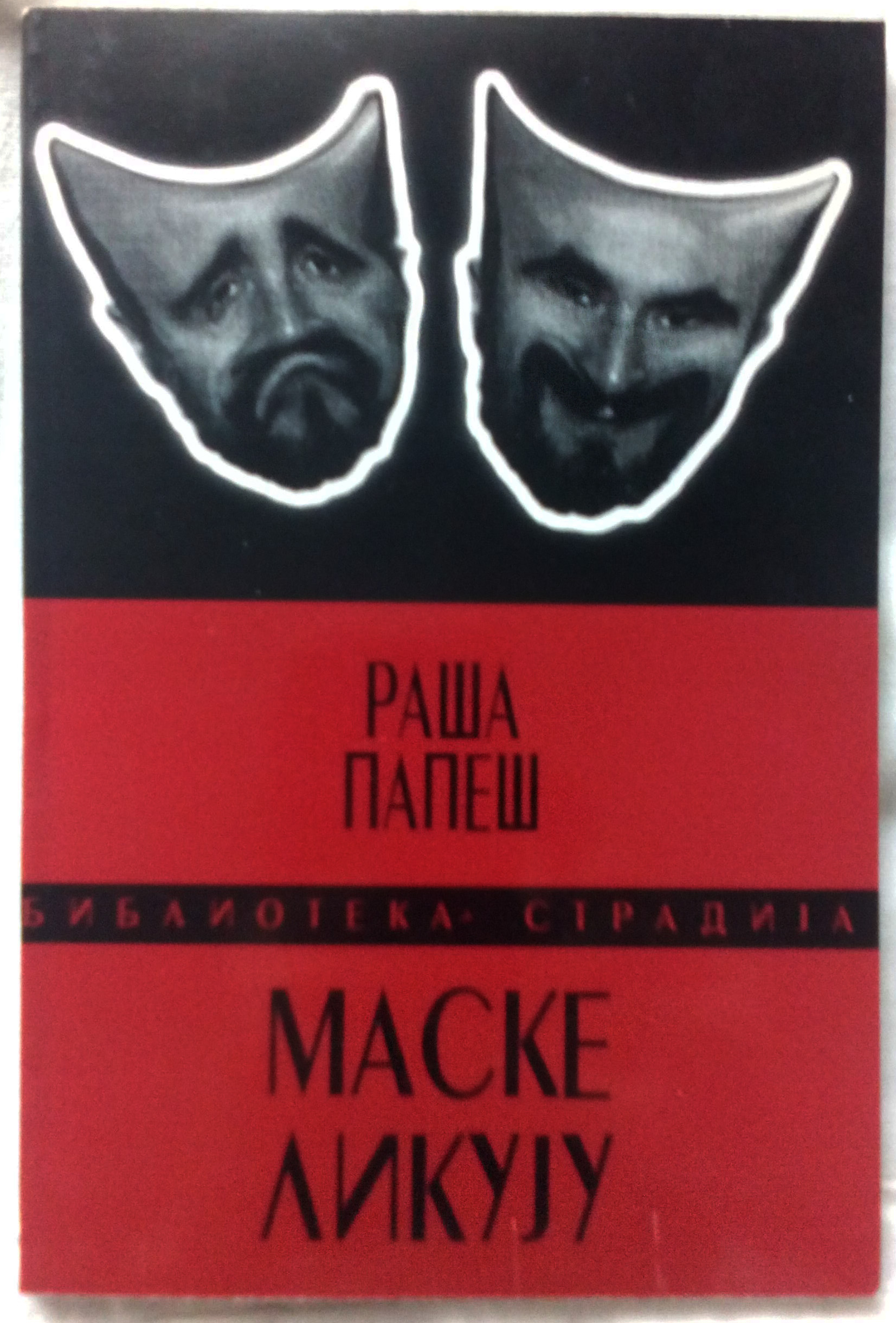 picture of a book